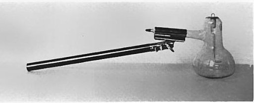 A vacuum tube electrode used in electrotherapy, an obsolete Victorian-era medical therapy, used from about 1890s to the 1930s. The electrode is used to apply high voltage radio frequency alternating current (AC) electricity from a Tesla or Oudin coil to the body to treat various ailments. It consists of a partially evacuated glass bulb with a metal plate sealed inside with an insulated handle. A wire from the high voltage terminal of the coil is attached to the terminal (upper right) of the electrode, and the glass bulb is applied to the skin. The high potential ionizes the gas in the bulb, giving off a violet glow. Only a very small amount of current could pass through the capacitance of the glass wall of the tube into the patient, making the treatment safe. The text says if applied to the skin the patient feels only a warm sensation, while if applied through layers of clothing he feels a prickling from sparks. The patient held a ground electrode attached to the bottom of the coil to serve as a return path for the current. Several hundred thousand to one million volts and frequencies of 200 kHz to 2 MHz were used.